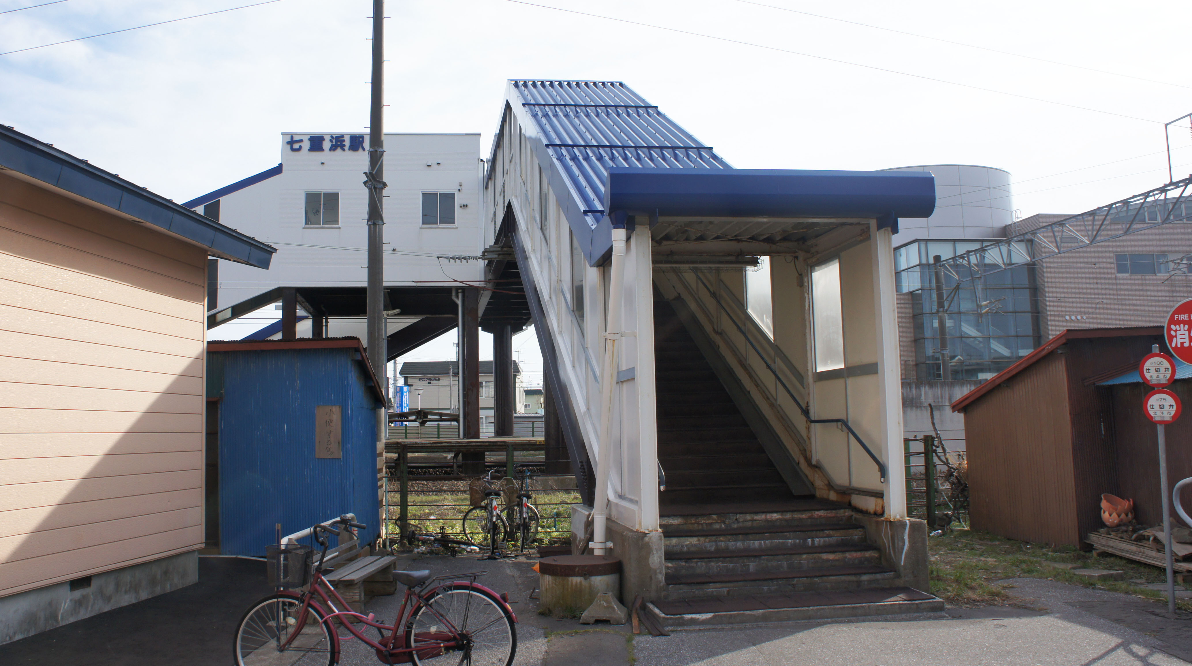 North Exit of South Hokkaido Railway Line Nanaehama Station Sony NEX-3 + E 18-55mm F3.5-5.6 OSS